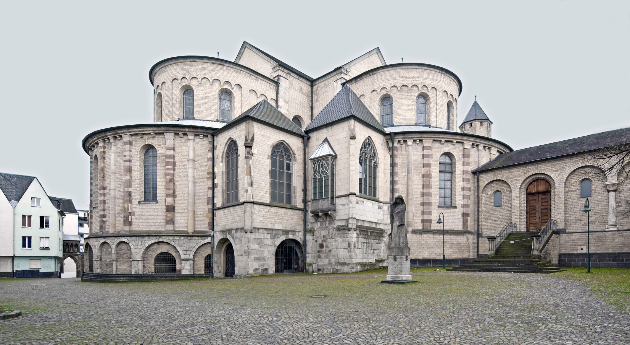 St. Maria im Kapitol, Köln (Cologne)